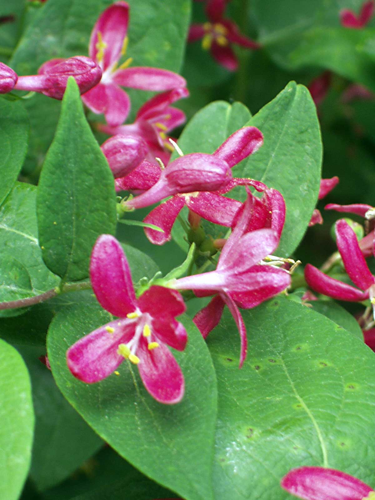 Tataren-Heckenkirsche (Lonicera tatarica)